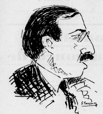 Victor Dalbiez in 1929